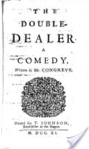 From frontispiece of comedy by Congreve dating back more than 200 years.